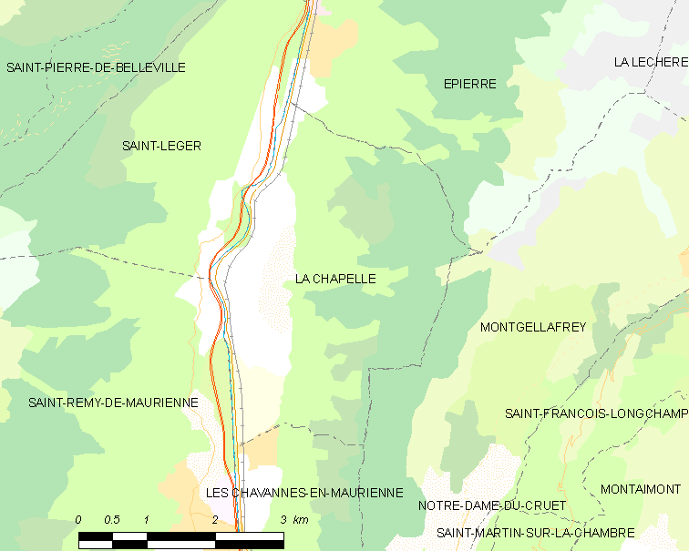 Map of French municipality